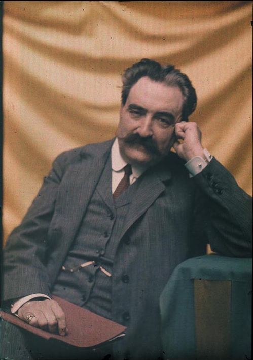 Antoni Amatller i Costa (Barcelona, 1851 - 1910). Autochrome self-portait